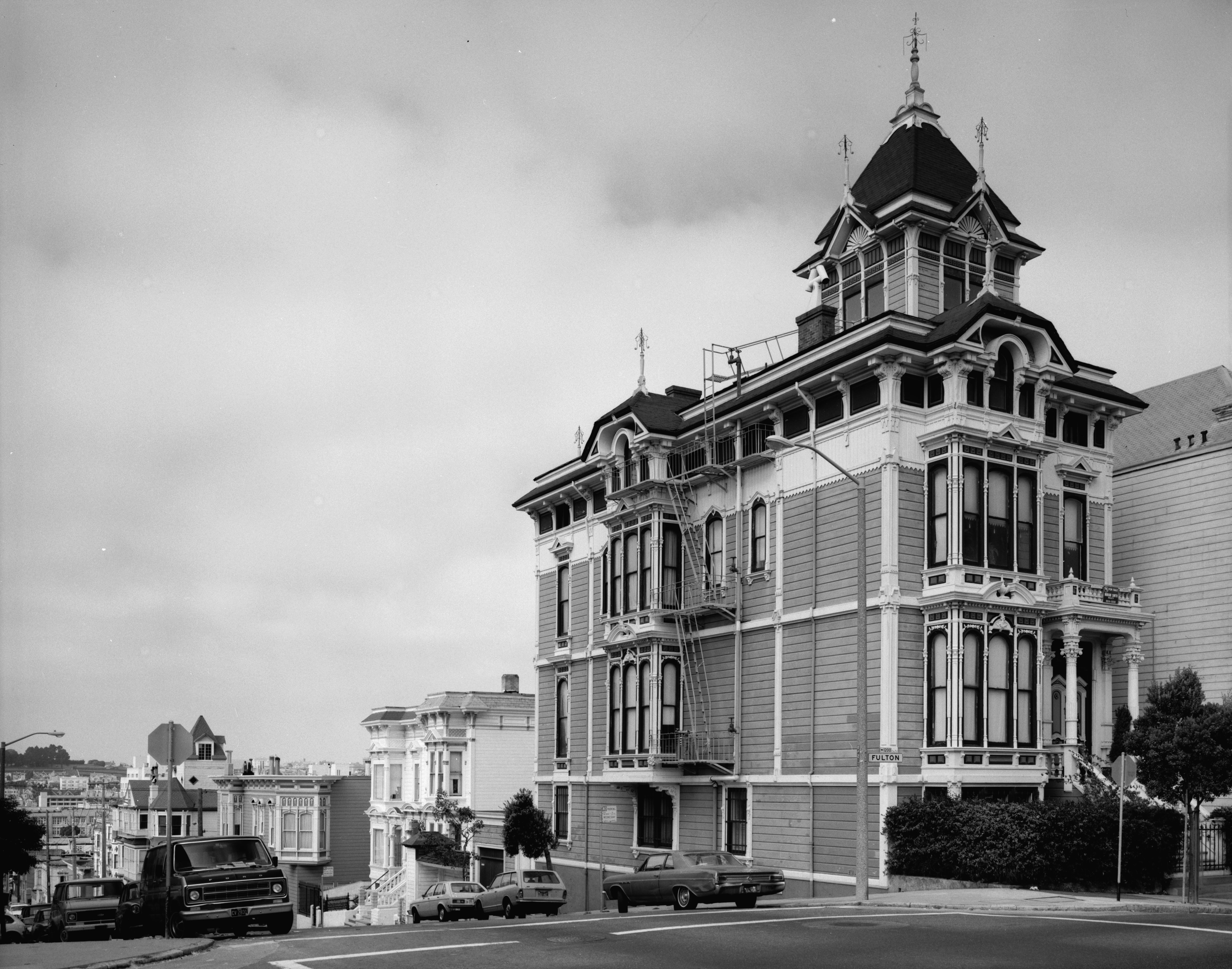 William Westerfeld House — VIEW SHOWING SIDE AND FRONT. Located at 1198 Fulton Street in San Francisco, San Francisco County, California. This 1981 image is from the HABS—Historic American Buildings Survey of California.